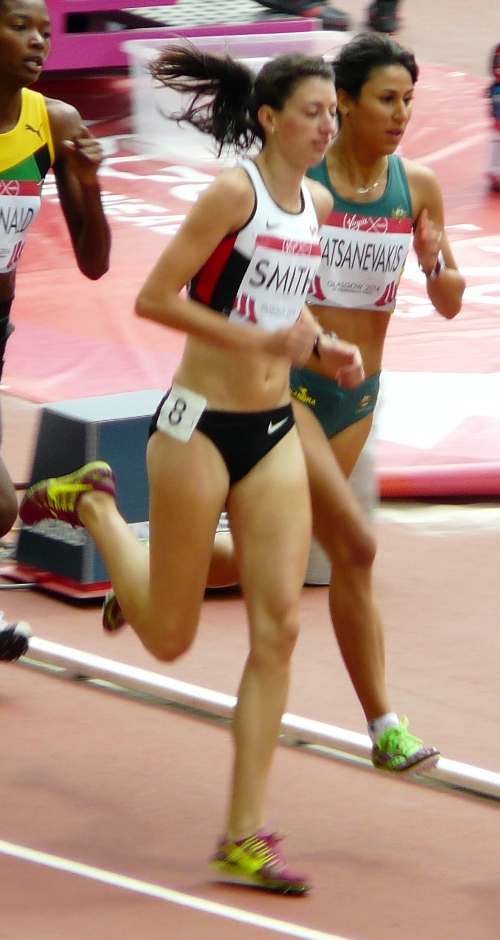 Jessica Smith and Katherine Katsanevakis at the 2014 Commonwealth Games